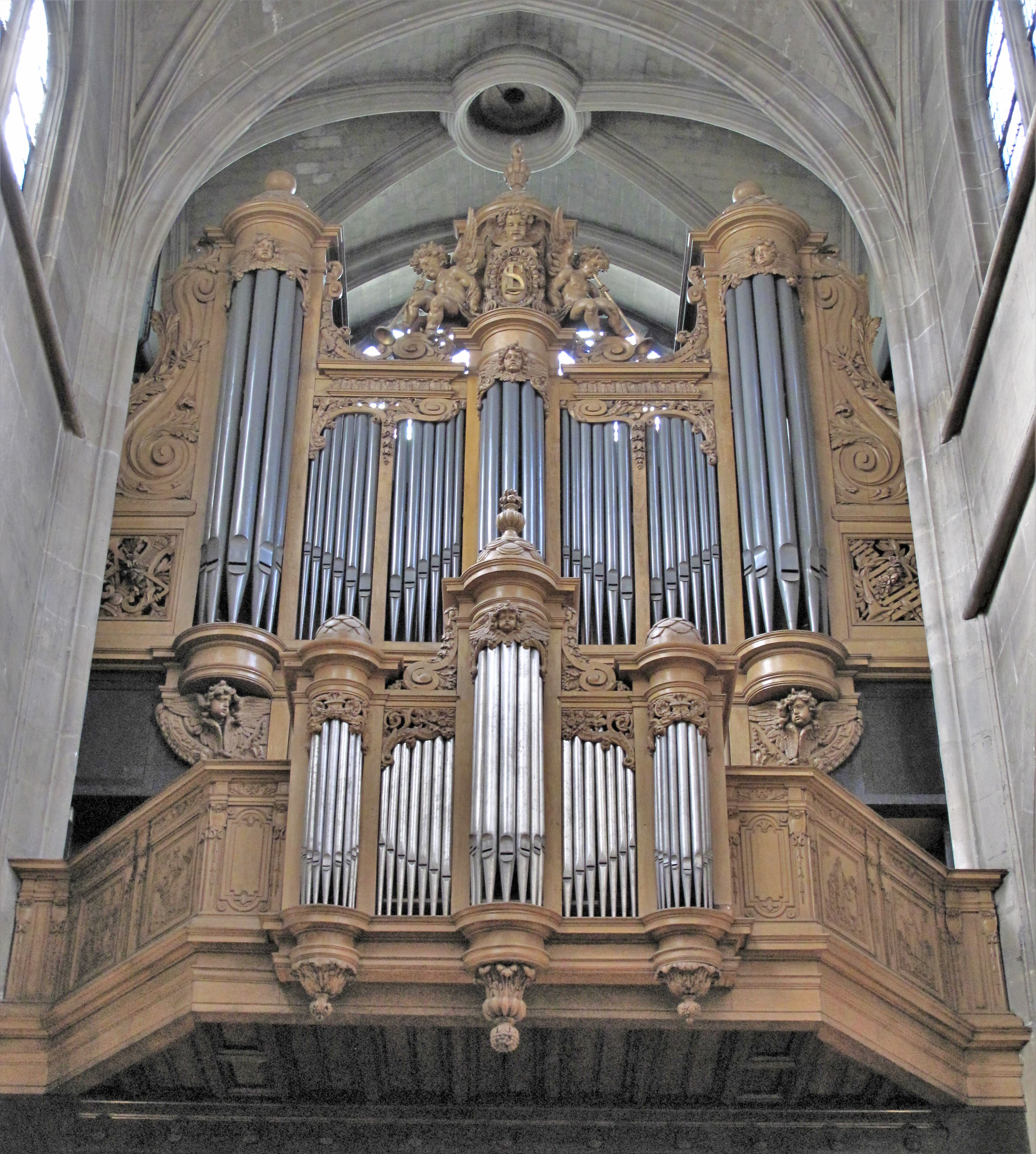 Organ of the church of Saint-Laurent in Paris 10th arrond.